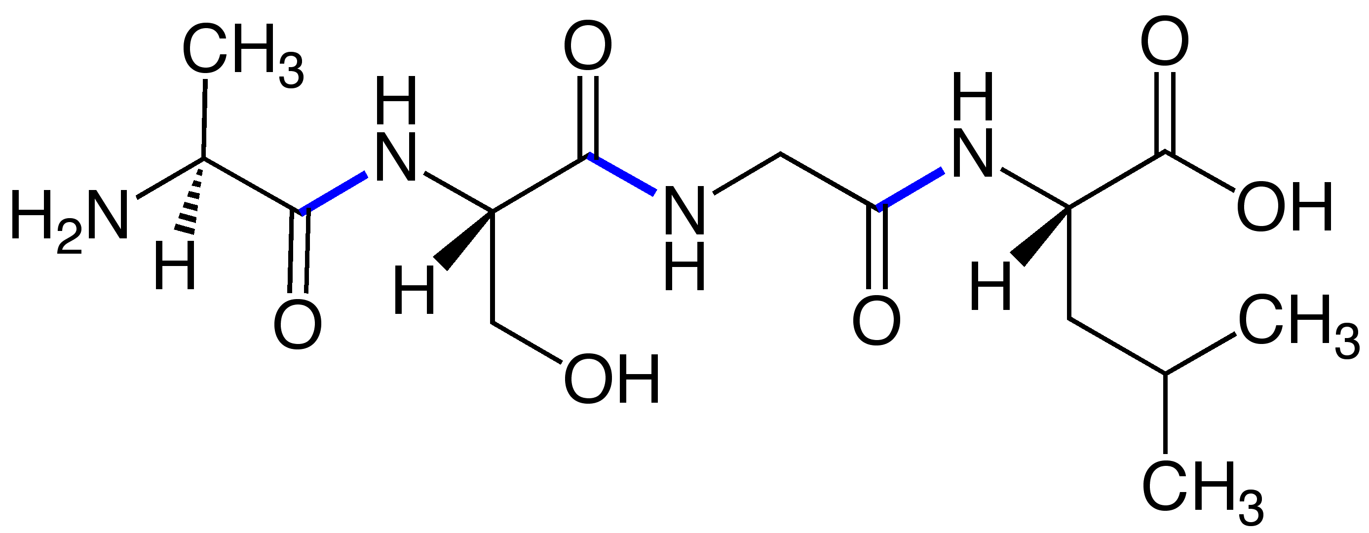 Peptide_Bonds_Tetrapeptide